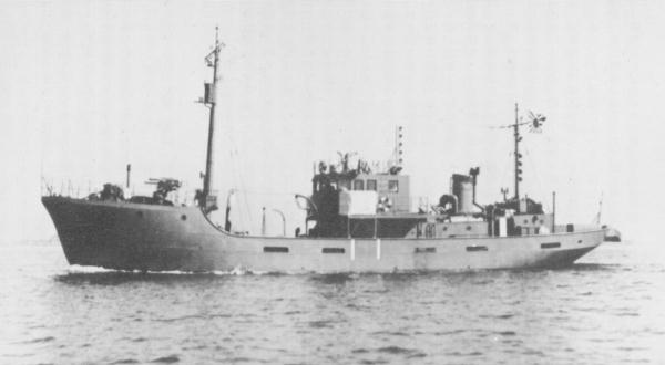 Japanese No.11 Auxiliary Minesweeper, compelted Feb. 24, 1943.